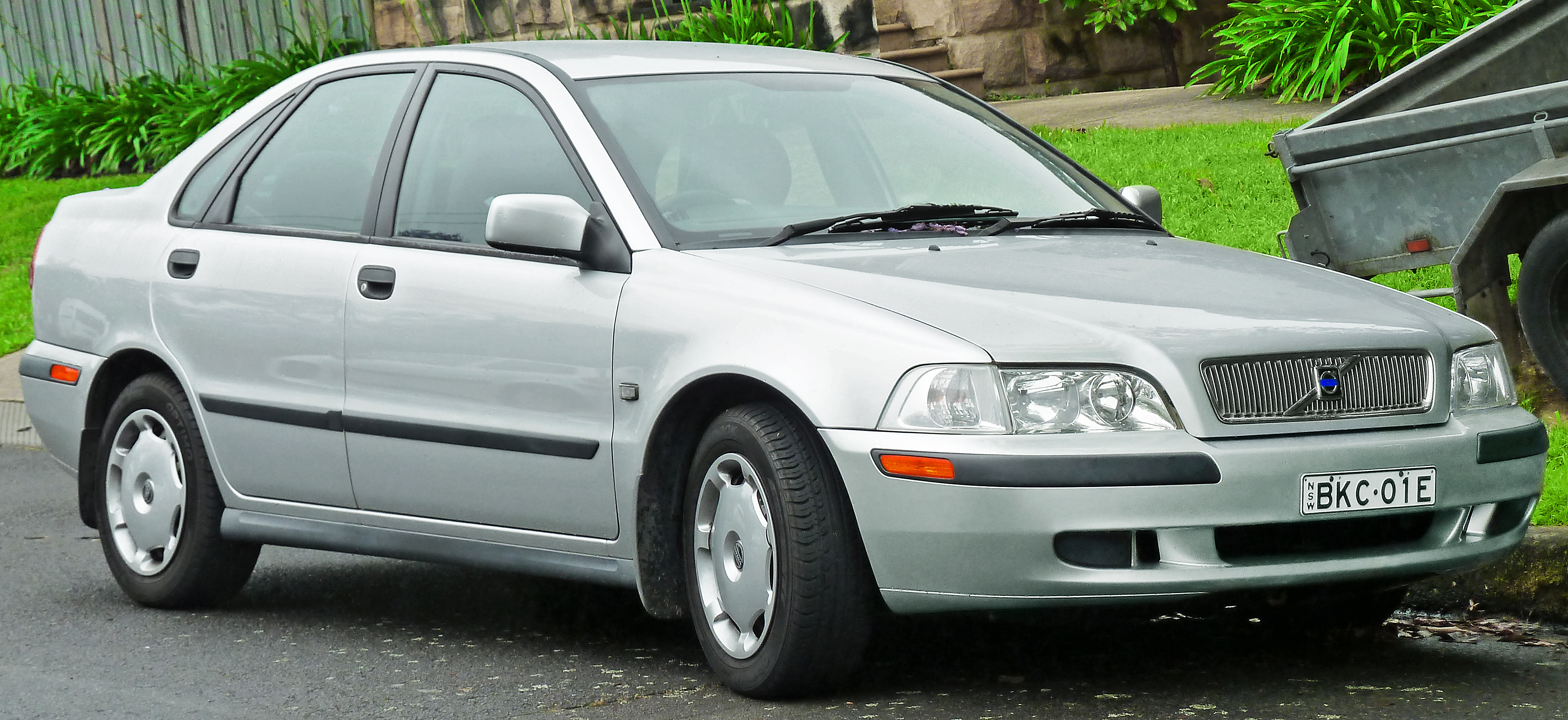 2001 Volvo S40 2.0 sedan. Photographed in Roseville, New South Wales, Australia.